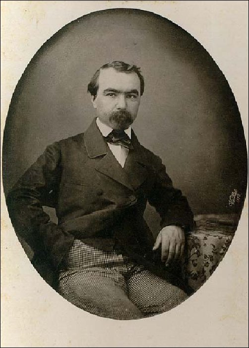 Portrait of Colonel Aimé Laussedat